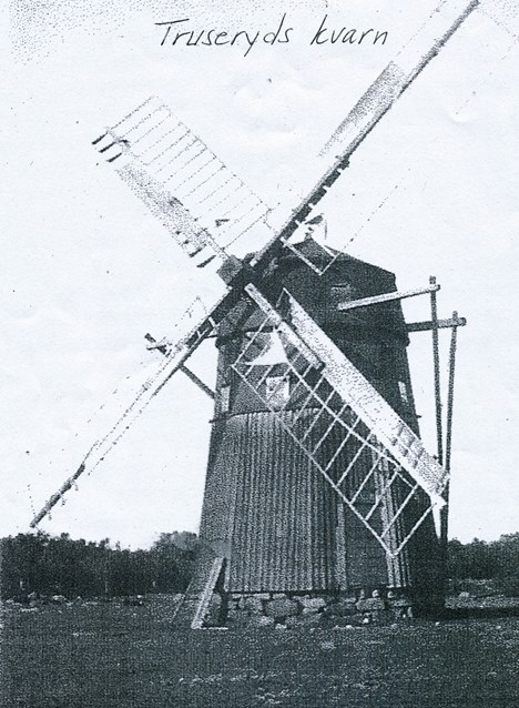 Windmill in Truseryd